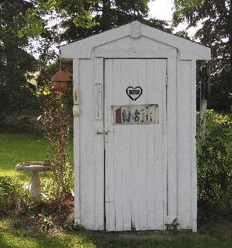 Outhouse